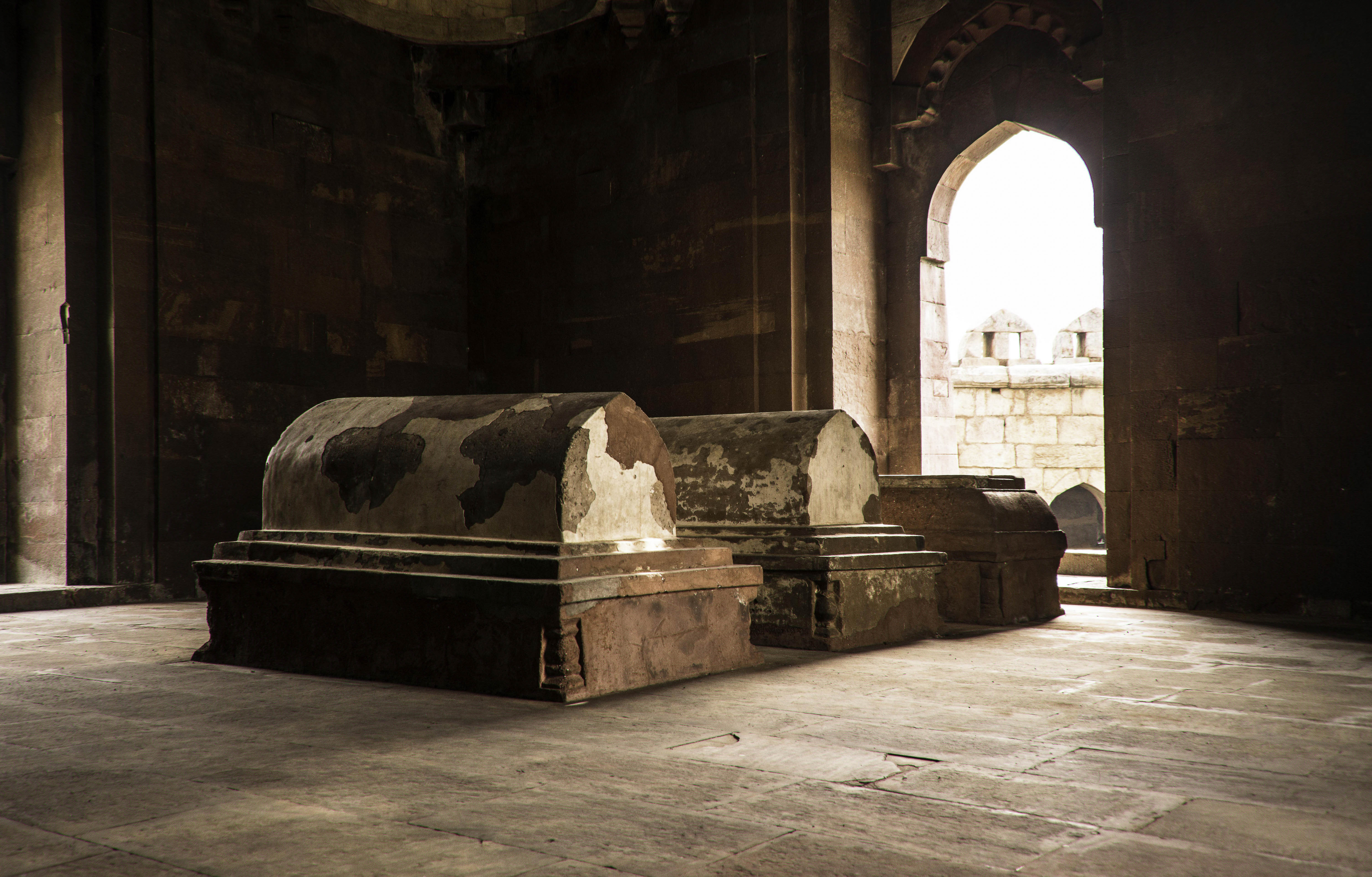 Graves of Ghiyas Ud Din, Muhammad Bin Tughlaq and of his wife